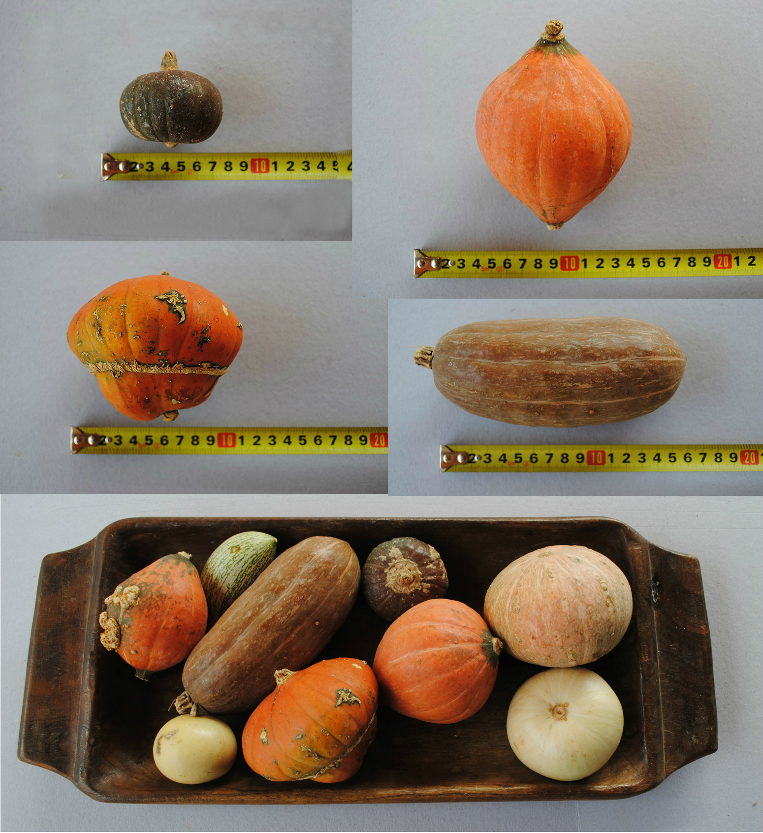 Cucurbita maxima edible decorative "mini squash": - Cucurbita maxima (mini) "Zapallito-Zipinki" (top left), - Cucurbita maxima (mini) "Nugget" (top right), - Cucurbita maxima (mini) "Turban" (middle left), - Cucurbita maxima not named by the germplasm bank, a (mini) "Zipinki" type (middle right). - Assorted Cucurbita maxima decorative edible and non-edible gourds (bottom).